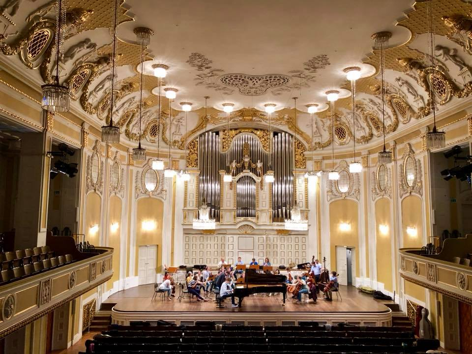 Jan Lisiecki leading Camerata Salzburg from the piano in rehearsal at Mozarteum Salzburg, Austria in 2018